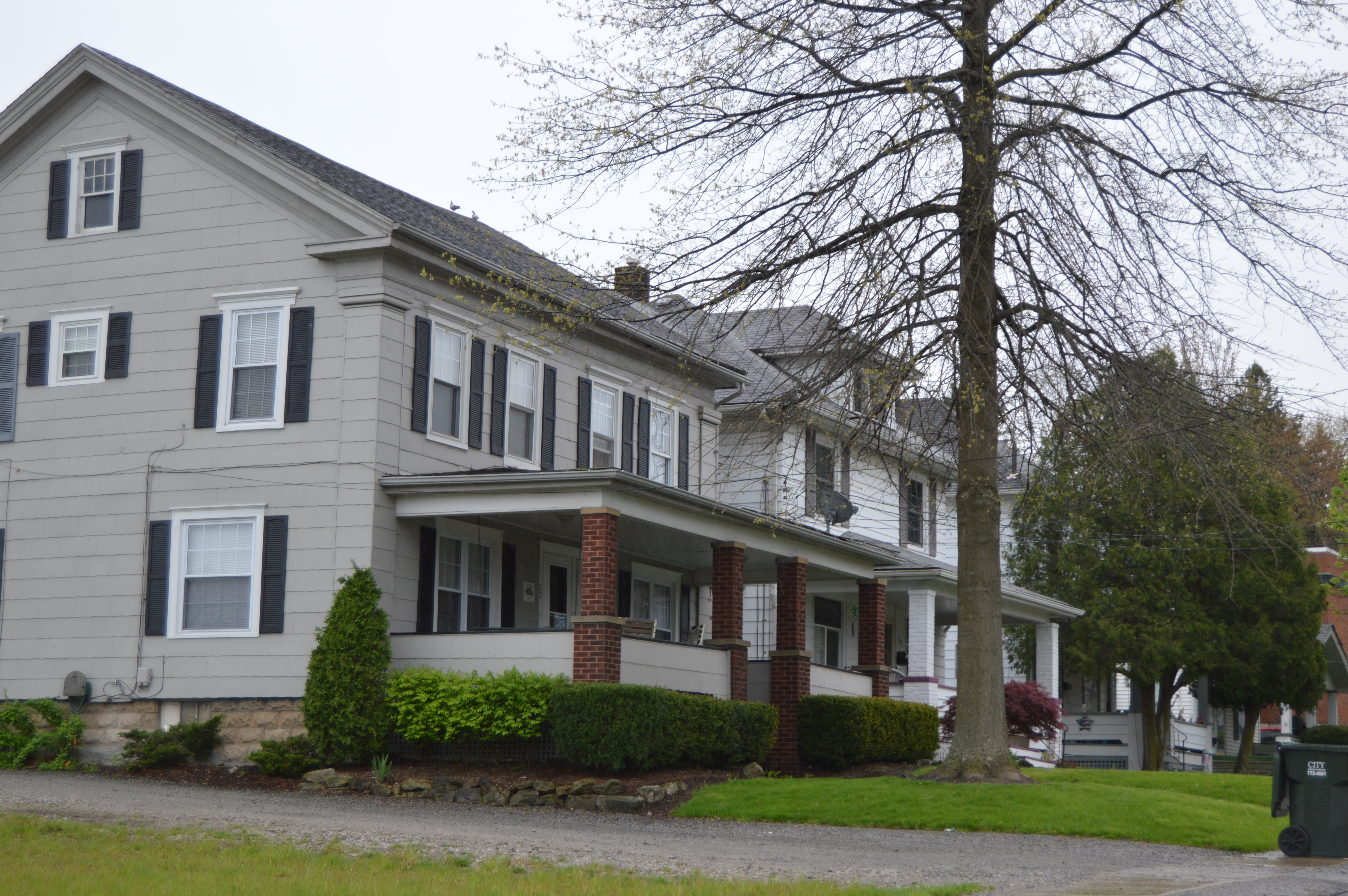 Houses on the eastern side of Bentley Street, just south of the Liberty Street intersection, in Hubbard, Ohio, United States.